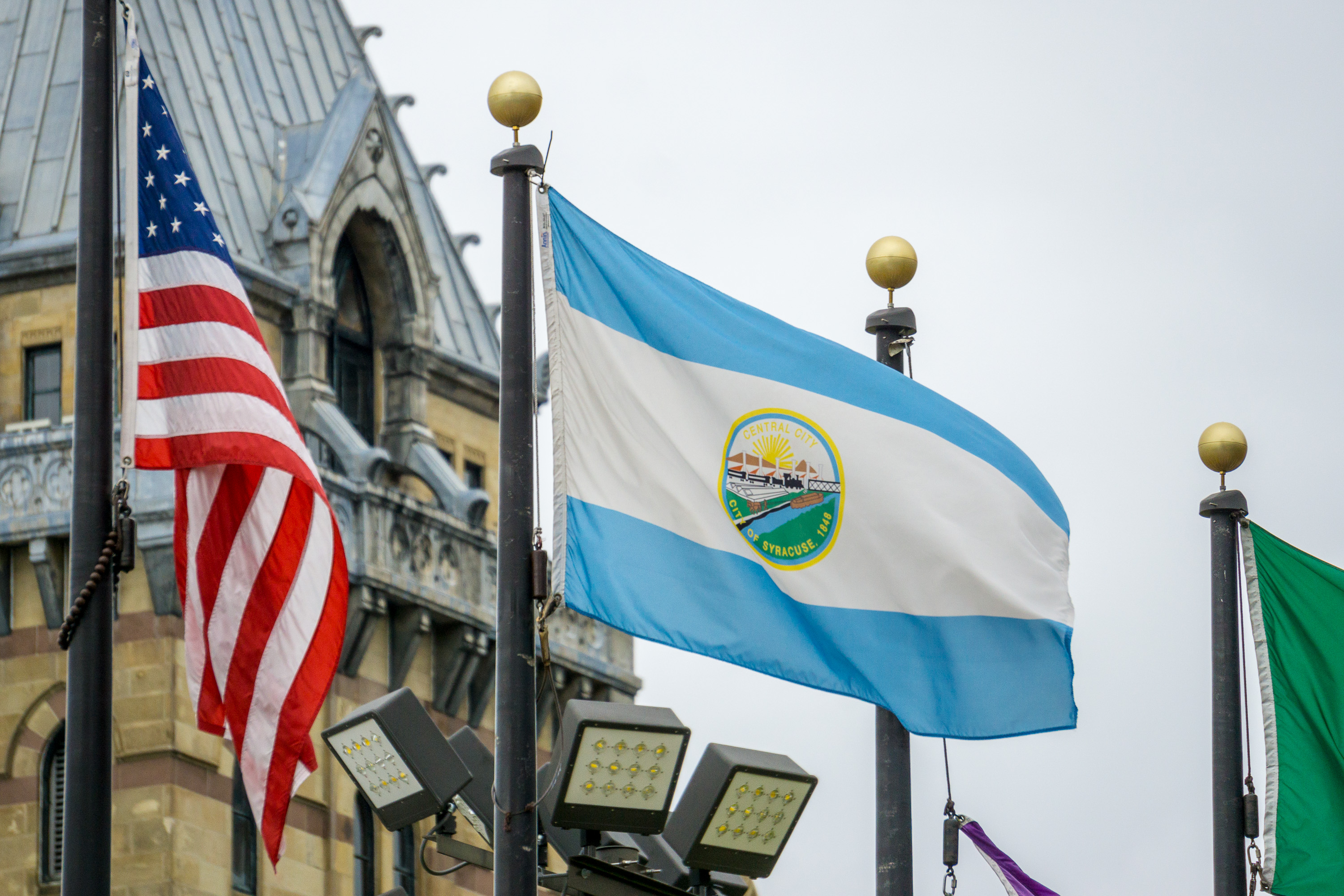 Flag of Syracuse, New York flies at Clinton Square